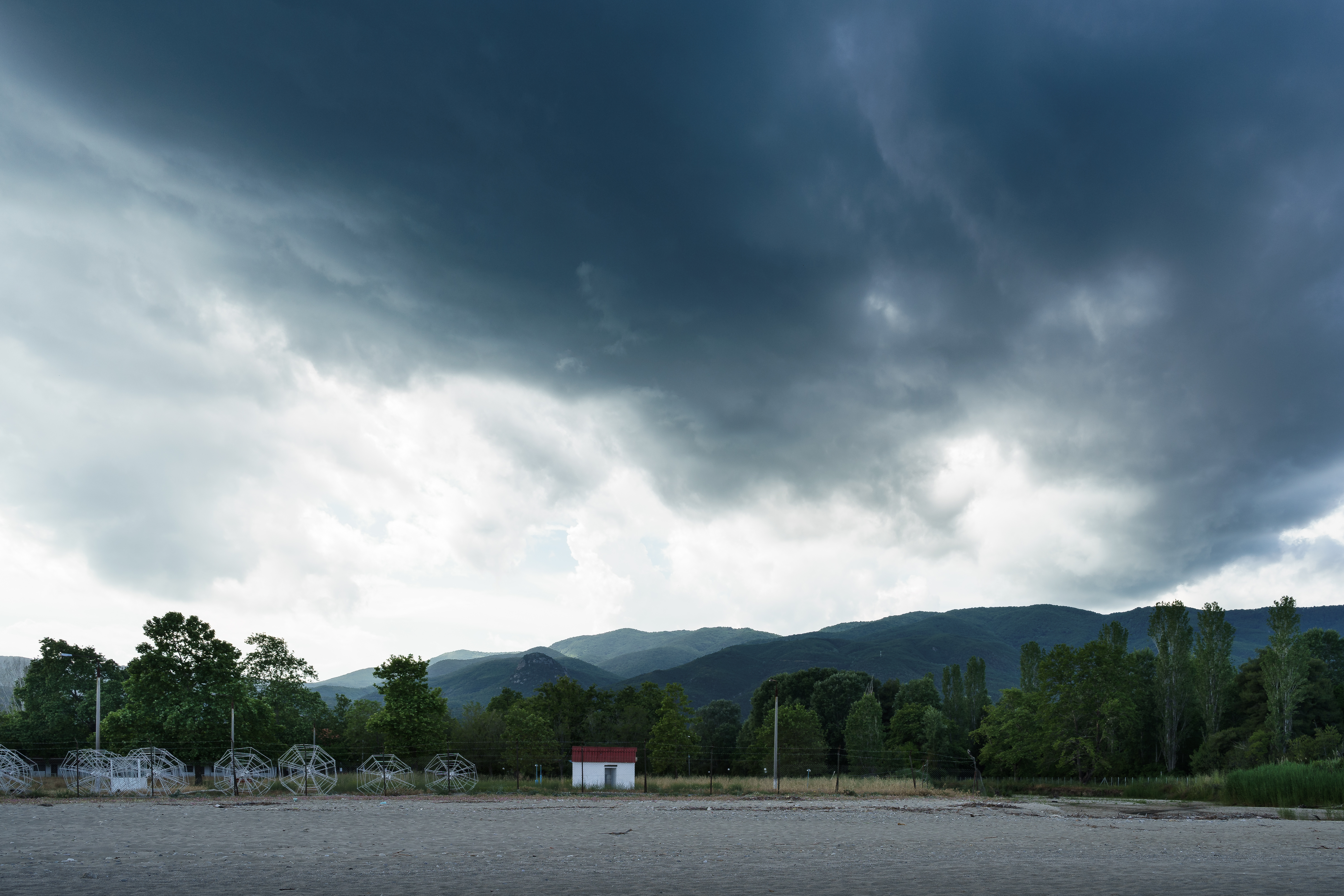 Shelf cloud over Asprovalta